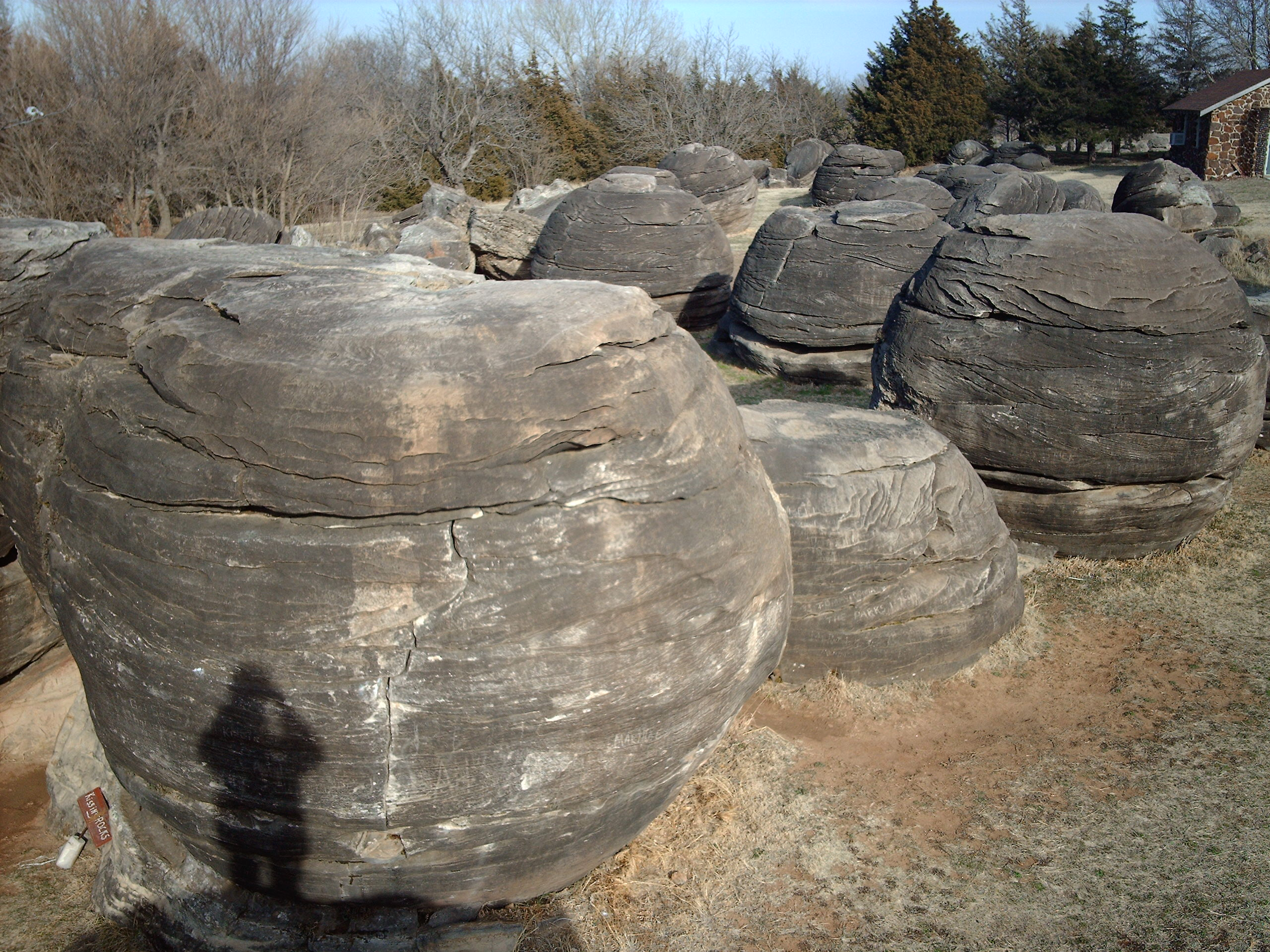 Rock City, Kansas, spheres of Dakota Sandstone